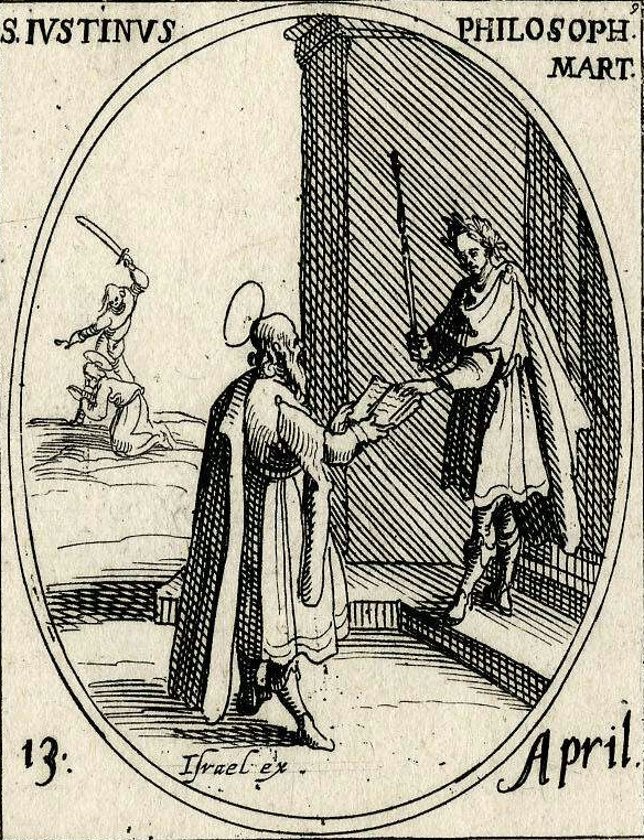 A bearded Justin Martyr presenting an open book to a Roman emperor. Paper, etching. Print made by Jacques Callot, published by Israël Henriet. French, 1632-1635.